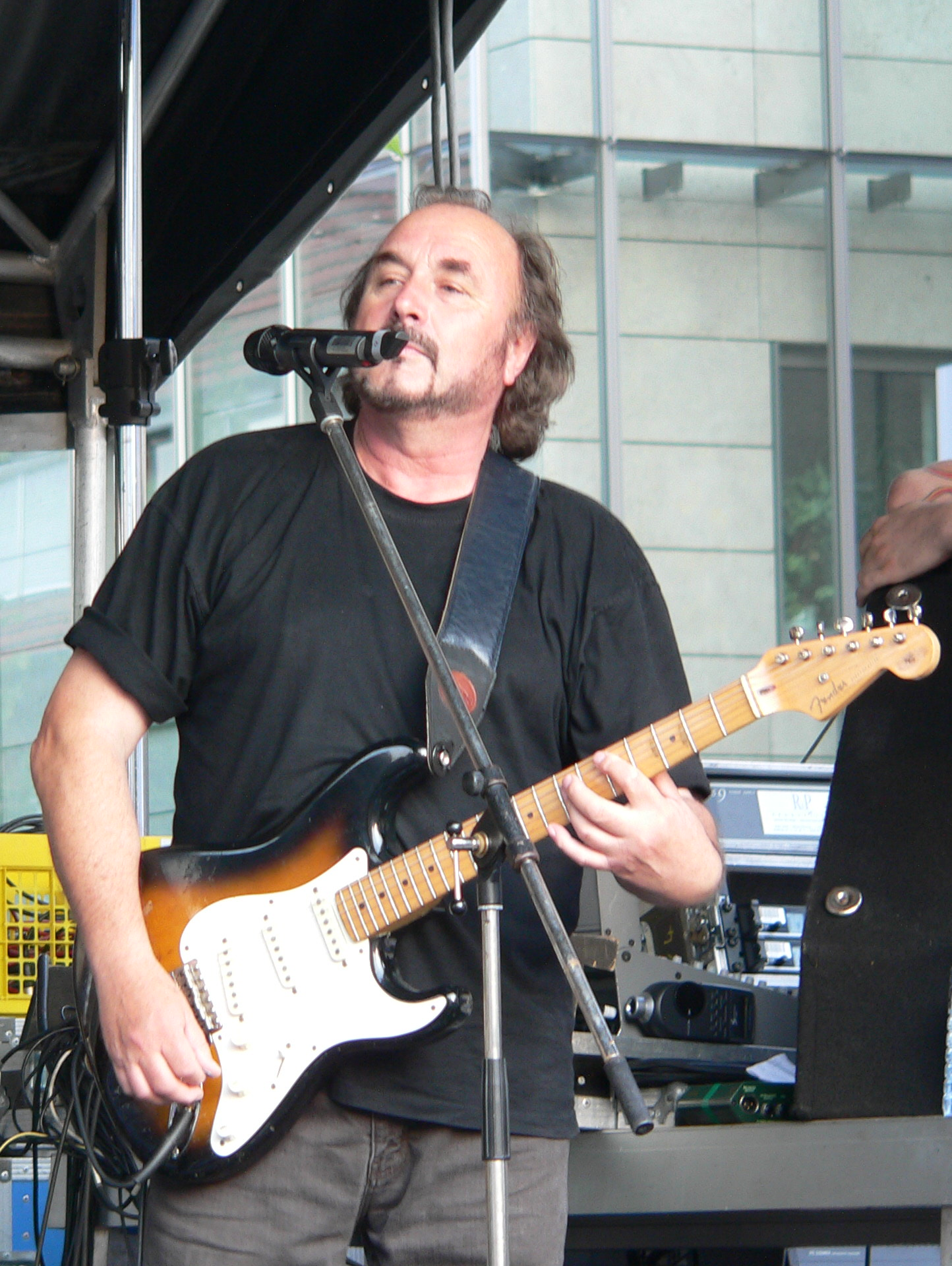 Miller Anderson (now: Spencer Davis Group) at a concert on 8. July 2006 in Neckarsulm